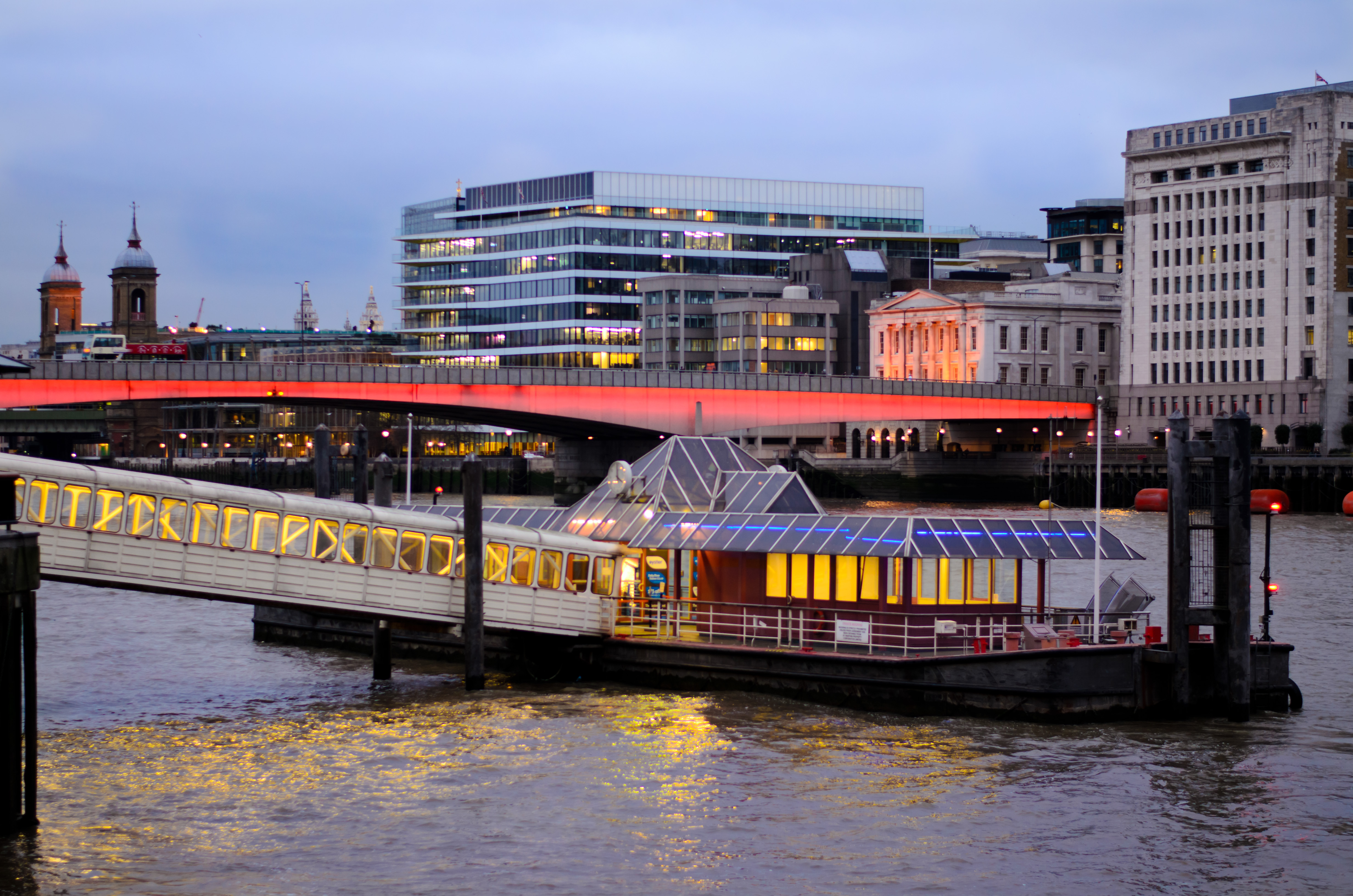 London Bridge City Pier, on the Thames riverside, in early evening.